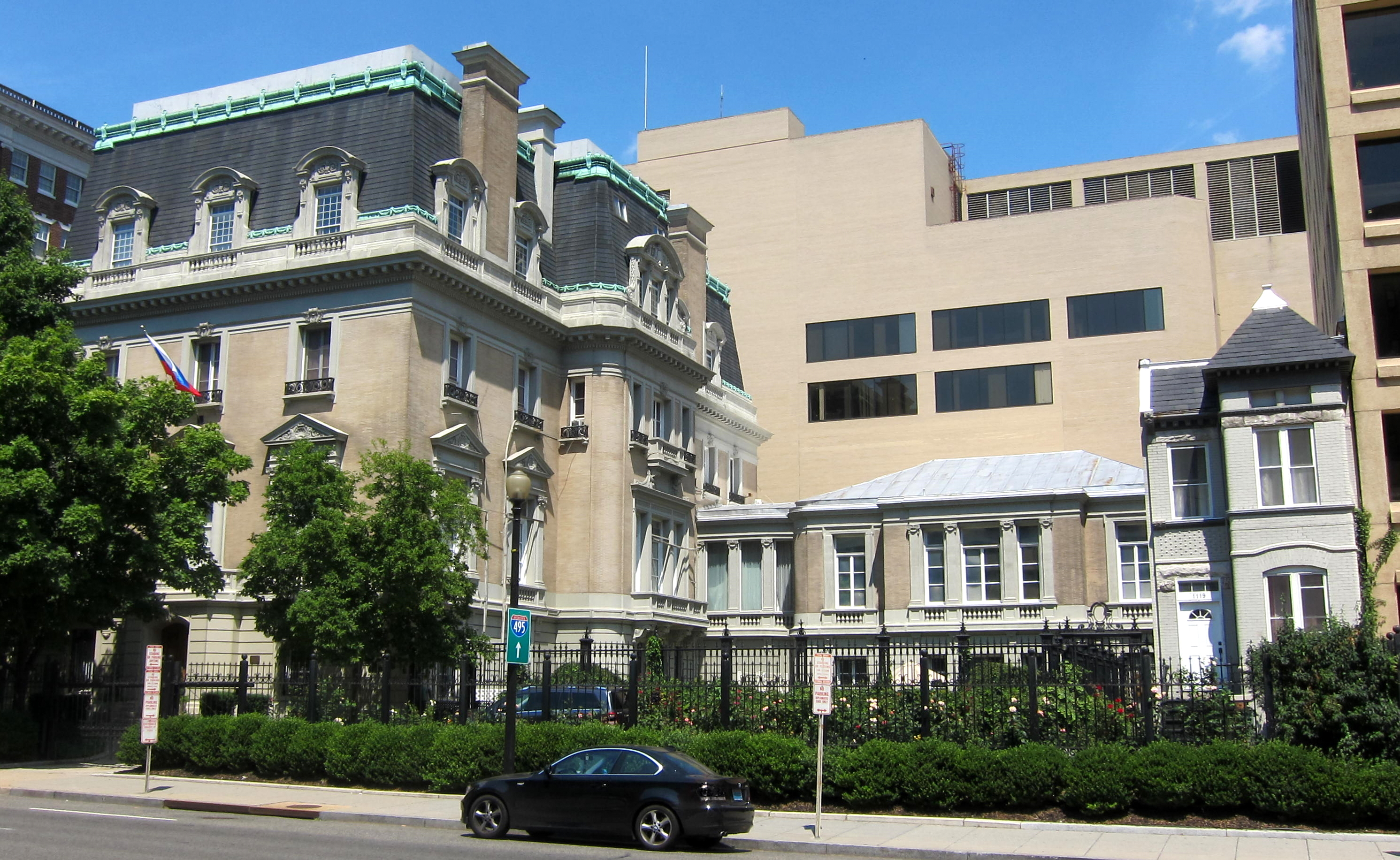 The Russian ambassador's residence, historically known as the Mrs. George Pullman House, located at 1125 16th Street, N.W., in downtown Washington, D.C. Built in 1910 to the designs of architects Nathan C. Wyeth and Francis P. Sullivan, the Beaux-Arts mansion is designated as a contributing property to the Sixteenth Street Historic District, listed on the National Register of Historic Places in 1978. In addition, the building is listed on the District of Columbia Inventory of Historic Sites. Until 1994, the building served as the Embassy of Russia (and Embassy of the Soviet Union). Former occupants include Frank O. Lowden, Natalie Hammond (spouse of John Hays Hammond), and since 1913, Russian ambassadors to the United States. In the background is the back of The Washington Post building that stood at 1150 15th Street NW from 1972 until 2016.